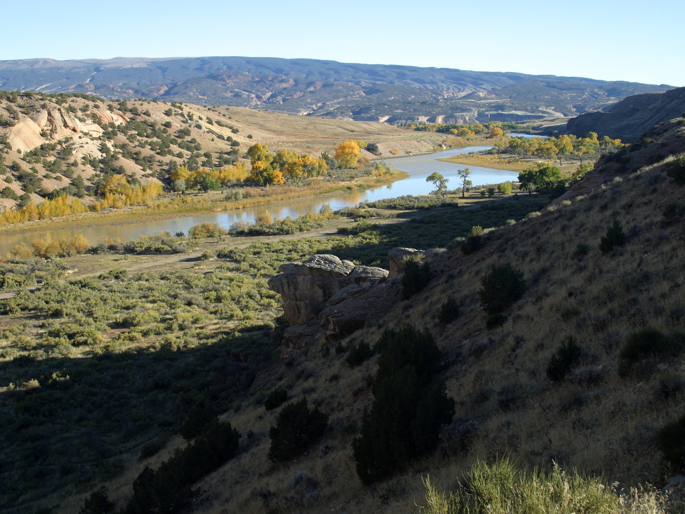 A view of the Green River facing down river from above the Split Mountain Campground in Dinosaur National Monument.